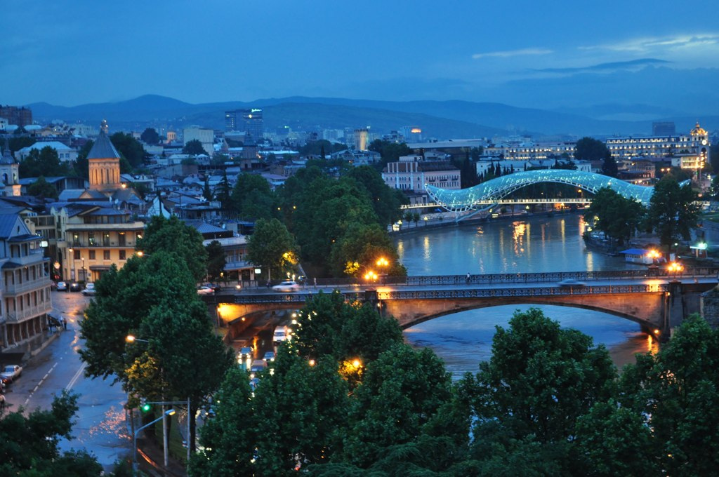 Old Tbilisi after rain